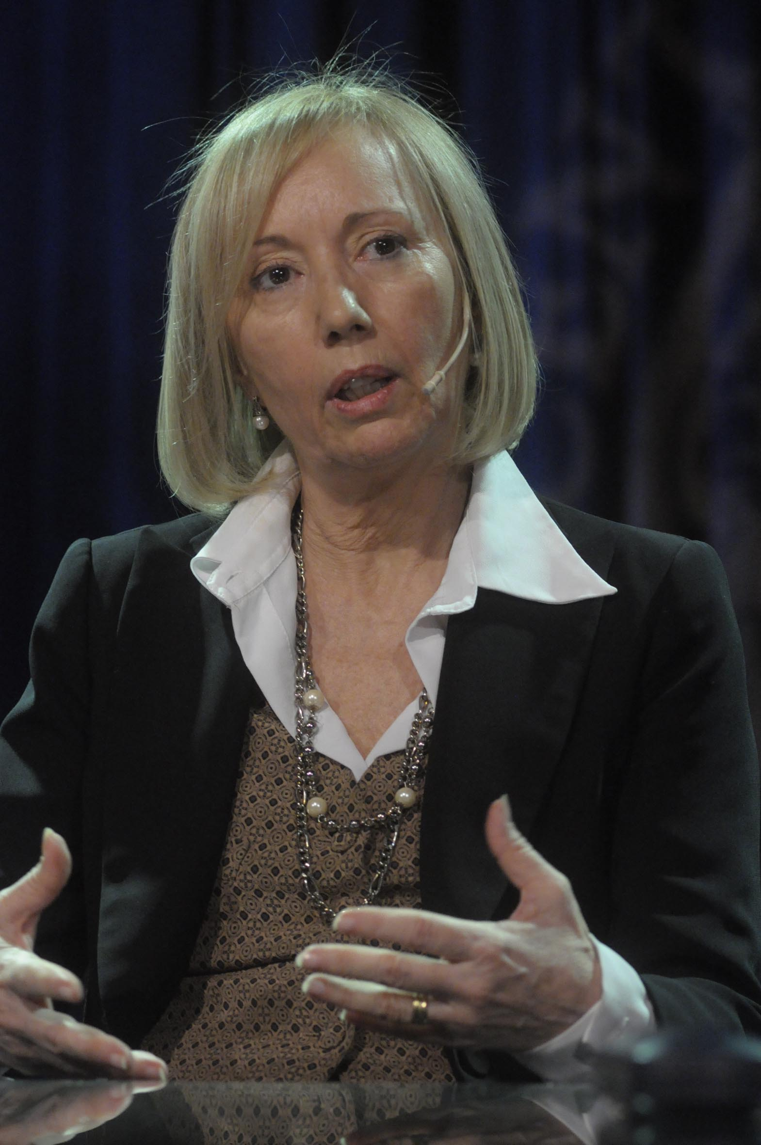 Sylvia Iparraguirre in 2012